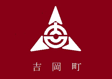 Flag of Yoshiokawa Gunma